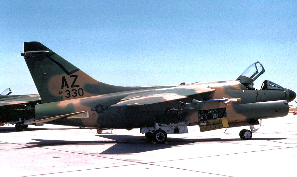 195th Tactical Fighter Training Squadron - A-7D 71-330 1972: Delivered to 23d Tactical Fighter Wing, England AFB, LA (c/n D-241) Transferred to 152d Tactical Fighter Squadron, AZ Air National Guard, 1981 Transferred to AMARC as AE0006 21-DEC-89 Disposition: Scrapped. Noted in scrapyard near AMARC 8/28/2000